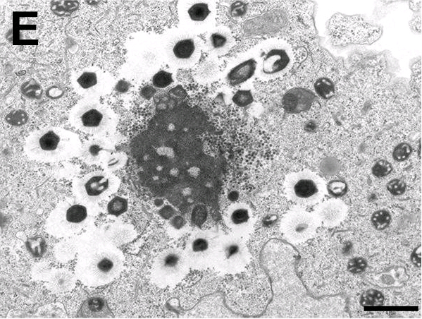 Transmission electron micrograph showing virus factories in amoeba co-infected with Zamilon virophage and the Mimiviridae, Mont1 (scale bar 0.1 µm)